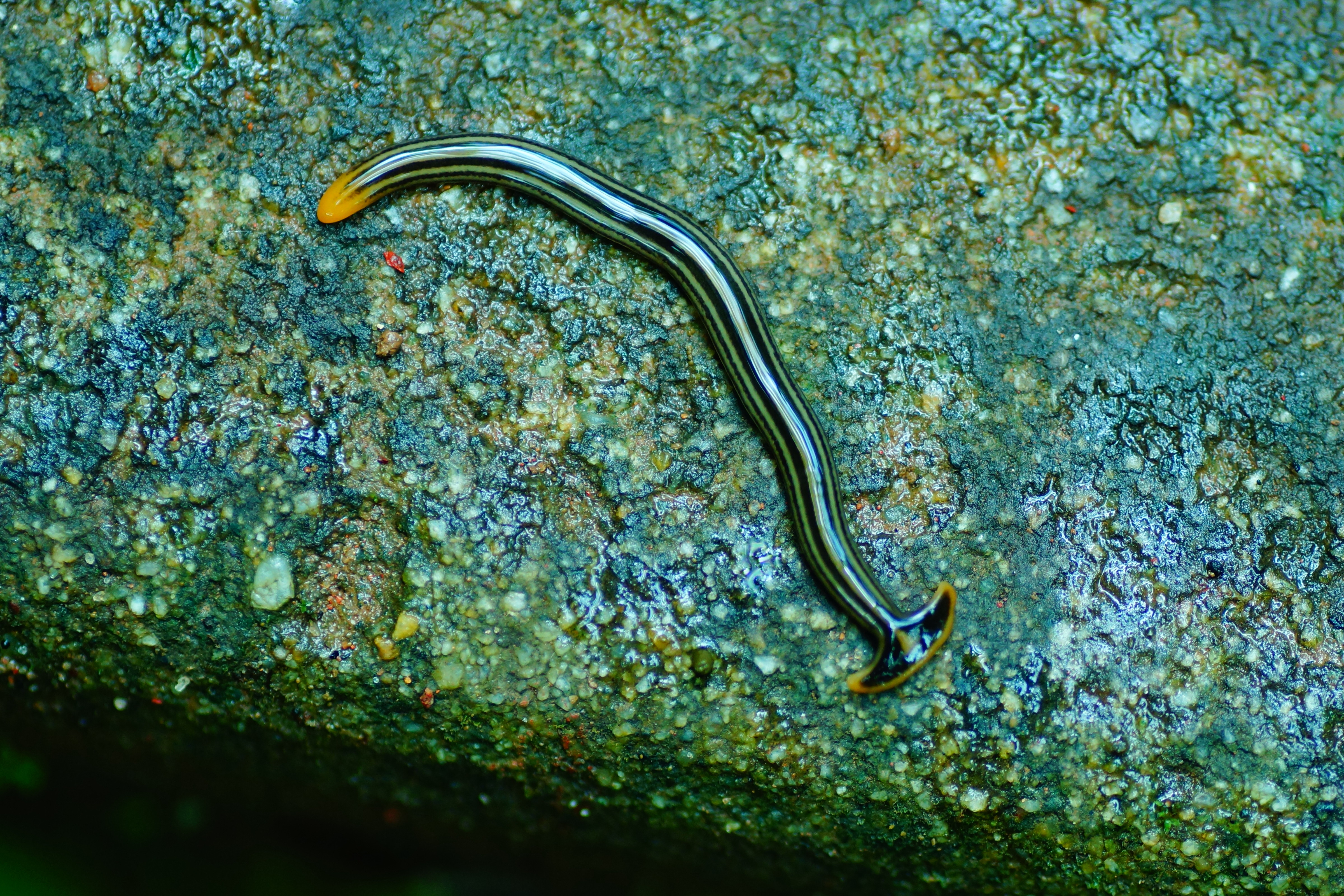 hammerhead worm(Bipalium)